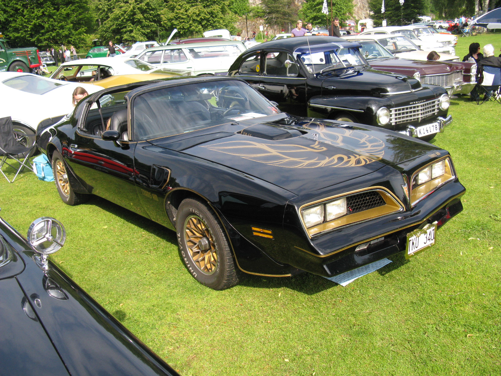 Pontiac Firebird Trans Am 1977